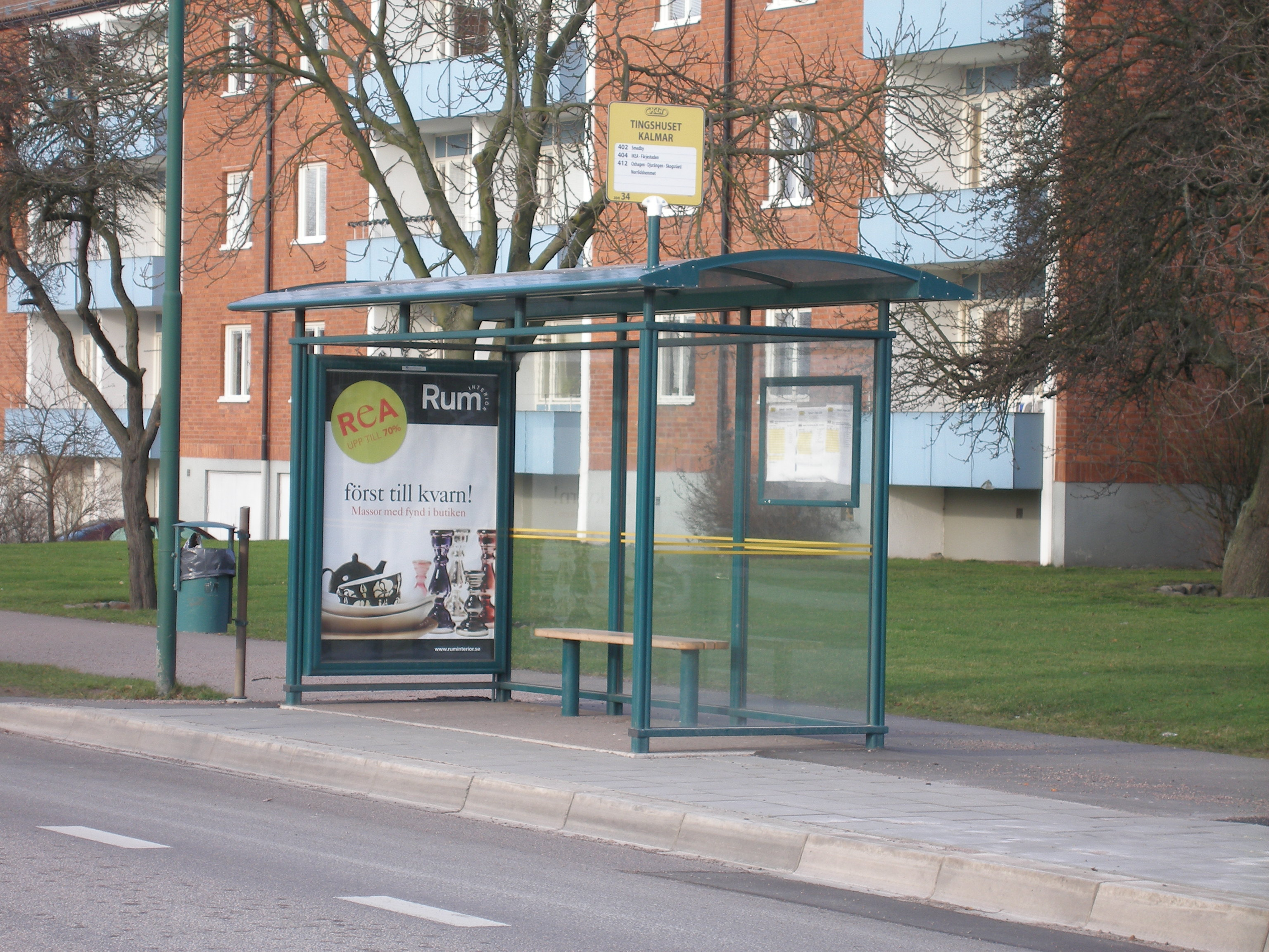 Bus stop in Kalmar, Sweden.